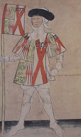 Richard Neville, 5th Earl of Salisbury KG PC (c. 1400 – 31 December 1460) who married Alice Montagu, daughter and only legitimate child of Thomas Montagu, 4th Earl of Salisbury. Unusually, he gives place of honour to the arms of his wife on his surcoat, placing them on the dexter half, impaling his own arms of Neville. The full image shows his wife at right.